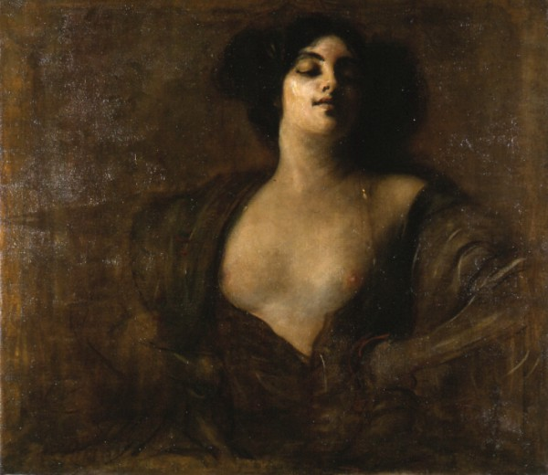 Hetaera, 1906. Franciszek Żmurko (1859-1910). Oil on canvas, 90 x 99. Owned by the Society for the Encouragement of Fine Arts in Warsaw, inv. no. 369. Lost between 1939-1945 (World War II).